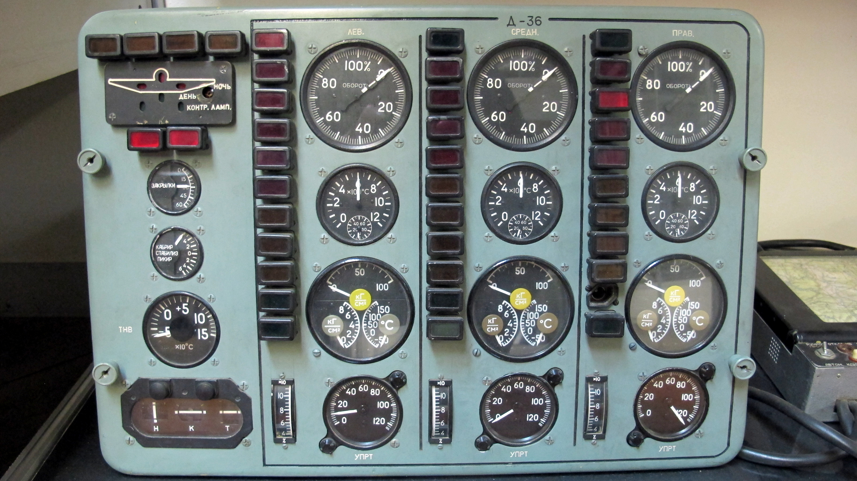 Engine instrument panel of Yak-42 aircraft, Wikitrip to MAI museum 2016-02-02